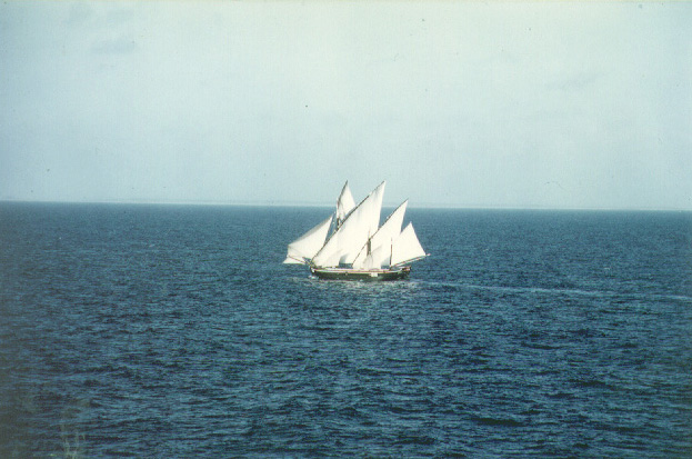 An indian traditional boat in northeastern wind. The Bay of Bombay in the background.